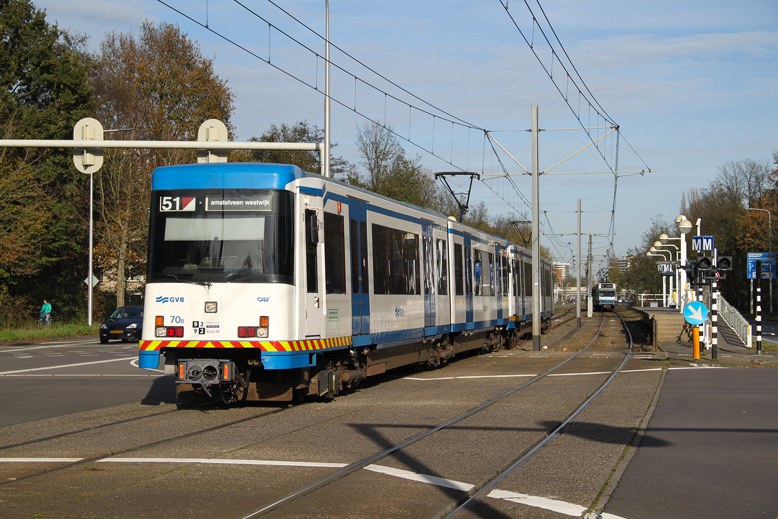 GVB CAF type S3 nr 70+73, line 51, Sportlaan (Amstelveen)